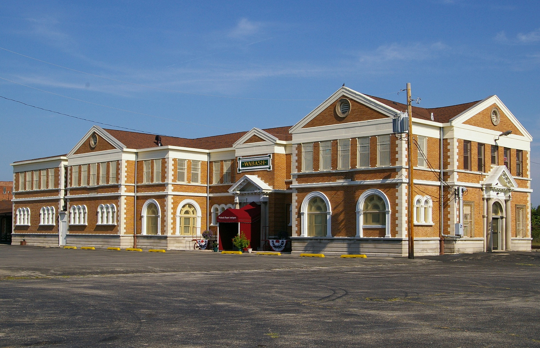 The former Wabash Railroad station in Decatur, IL. Built in 1901, it is probably the largest existing station on the former Wabash line. Restored in 2002, it is now an antiques store.